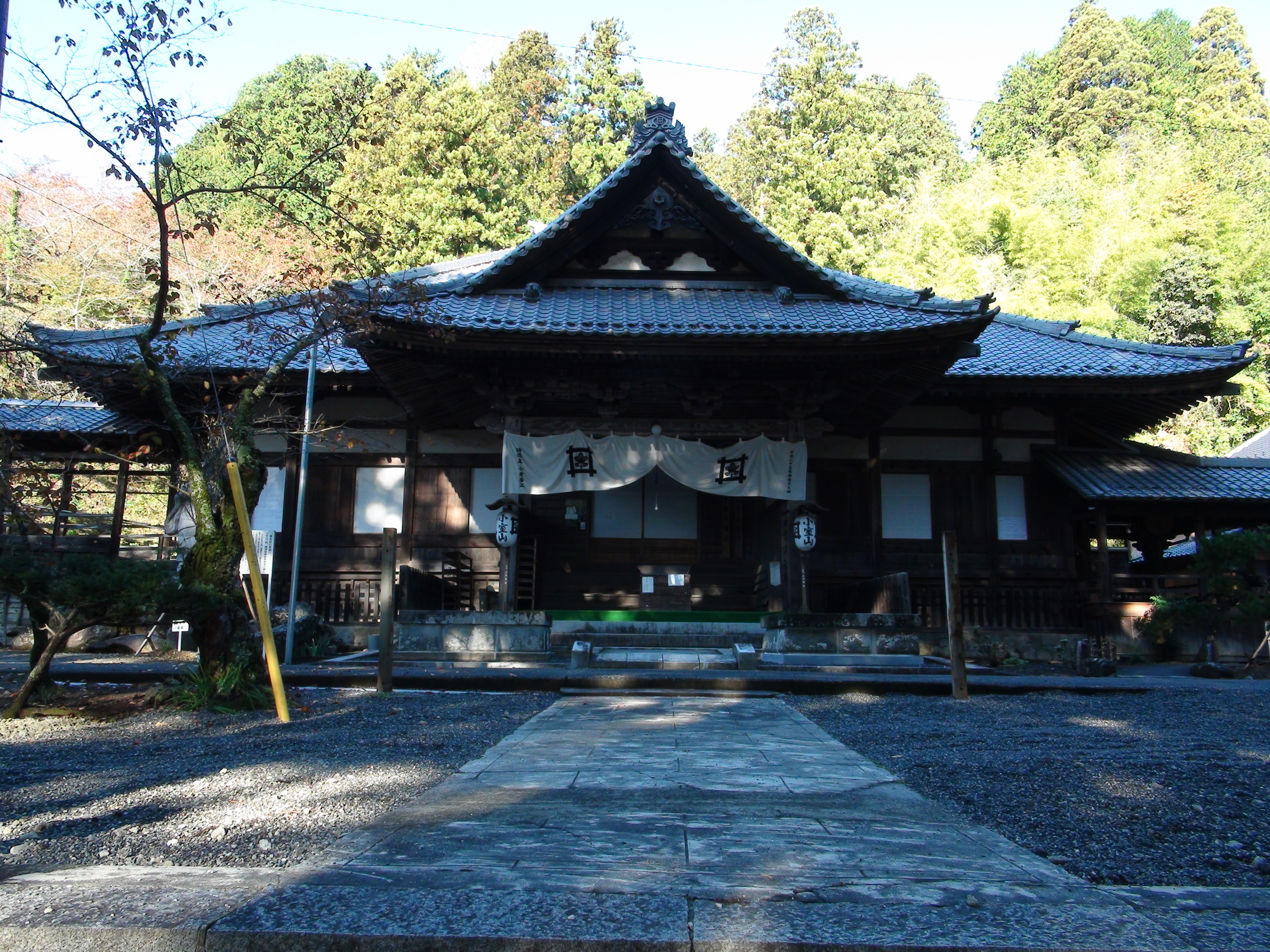 Myohoji reception hall Fujikawa Yamanashi